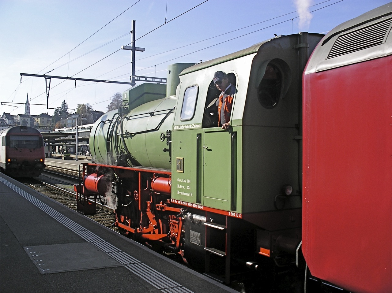 fireless steam engine 002, refurbished for use in industry by Dampflokomotive- und Maschinenfabrik DLM demonstrated in Schaffhausen, Switzerland